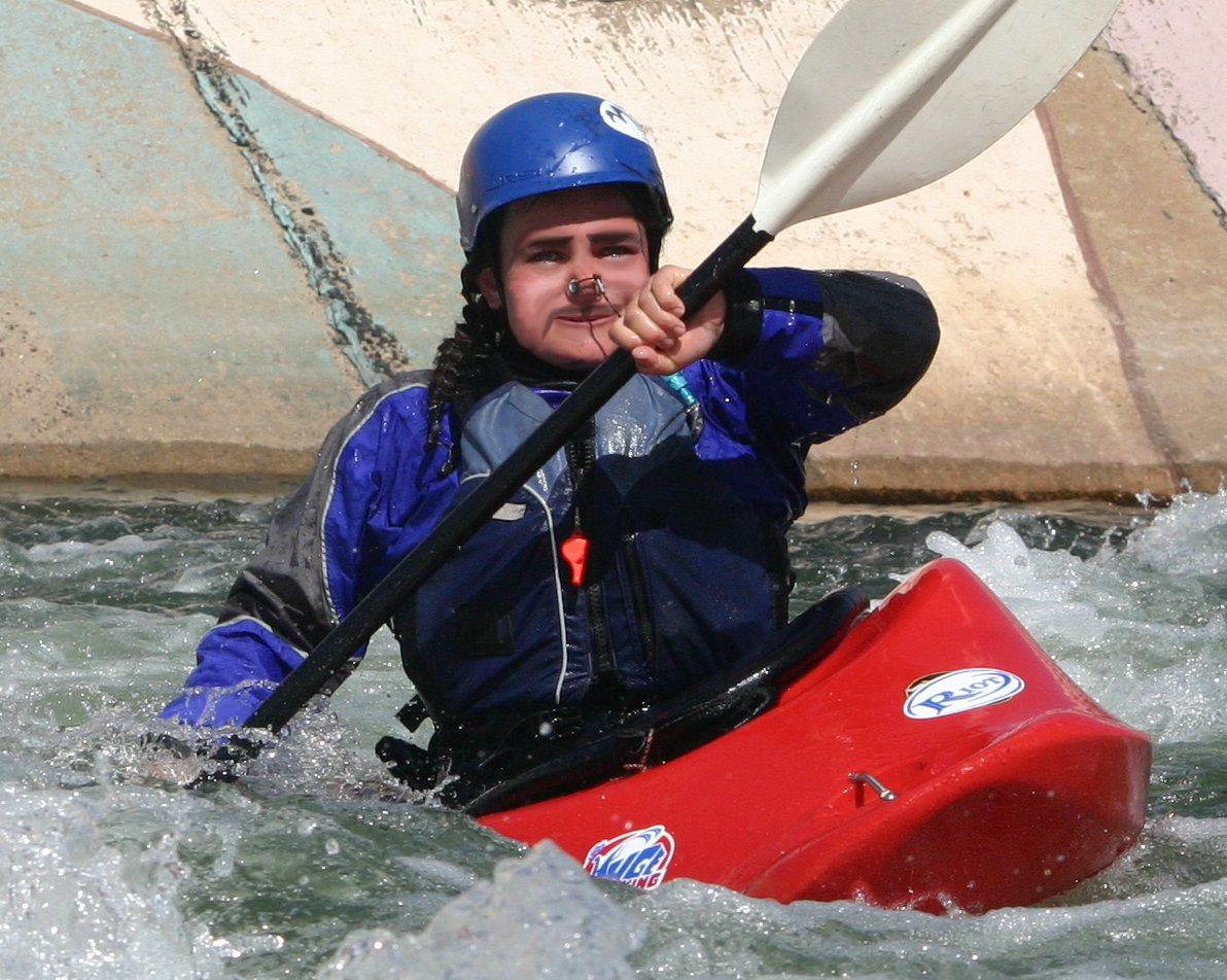 Playboater tilting in Pueblo, Colorado, USA: The kayaker is sitting upright, and only the boat is on edge. (The kayaker's left hand, however, is buried in the water, and the PFD/lifevest is not properly zipped.)